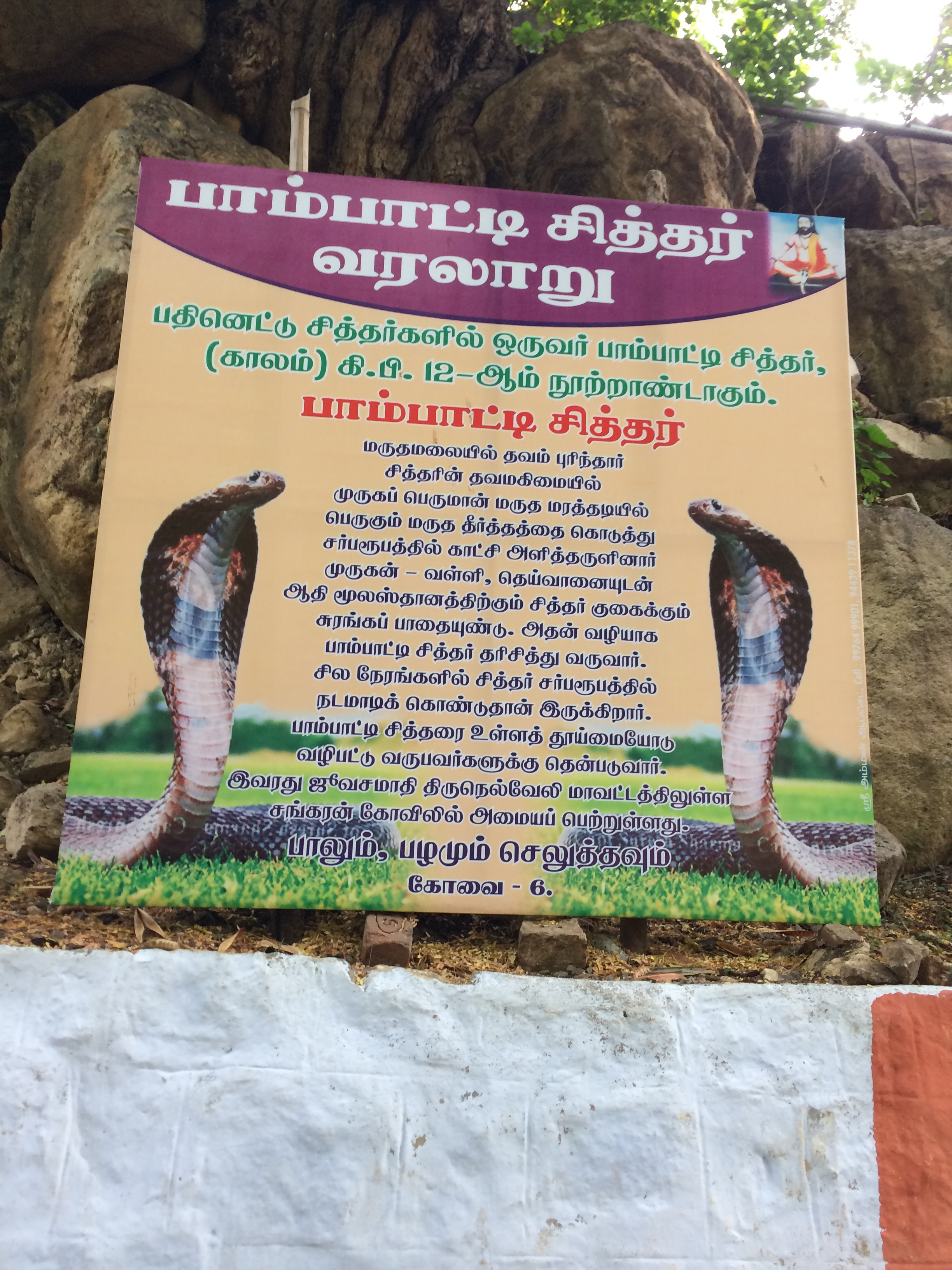 Paambatti siddhar history